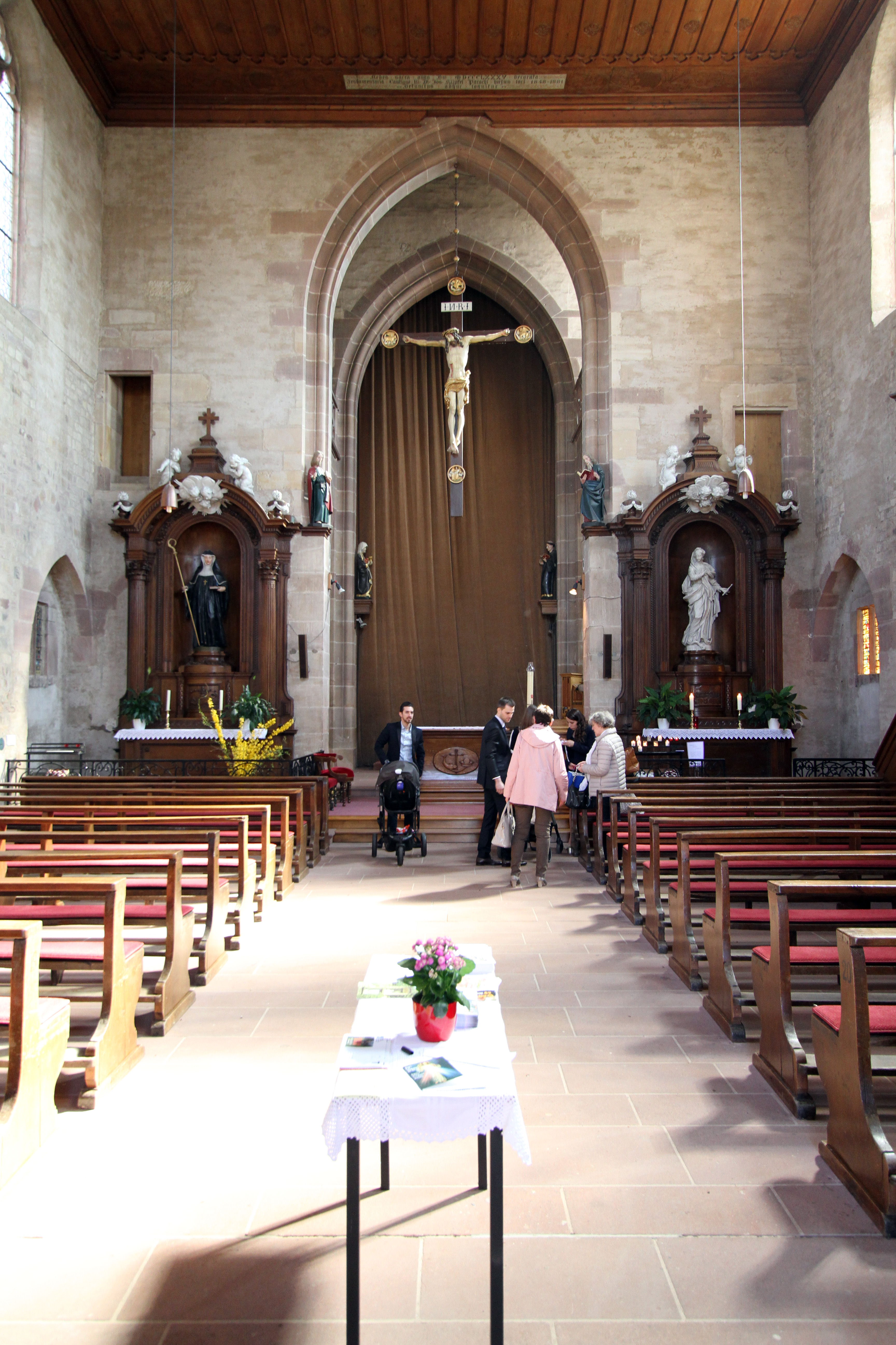 Church of Saint Walburg in Walbourg, interior decoration